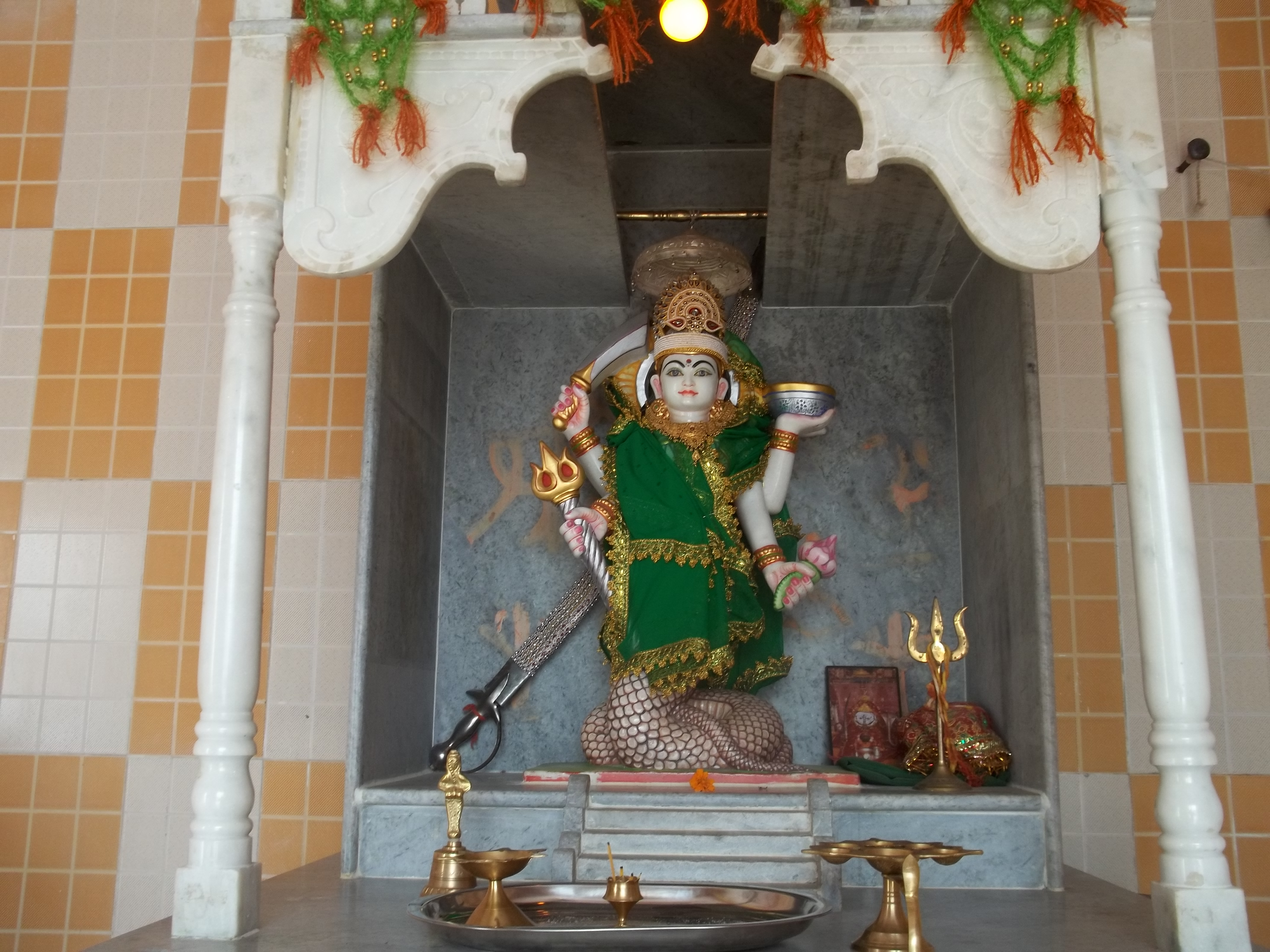 Maa Nagneshwari Temple Khakhrechi.